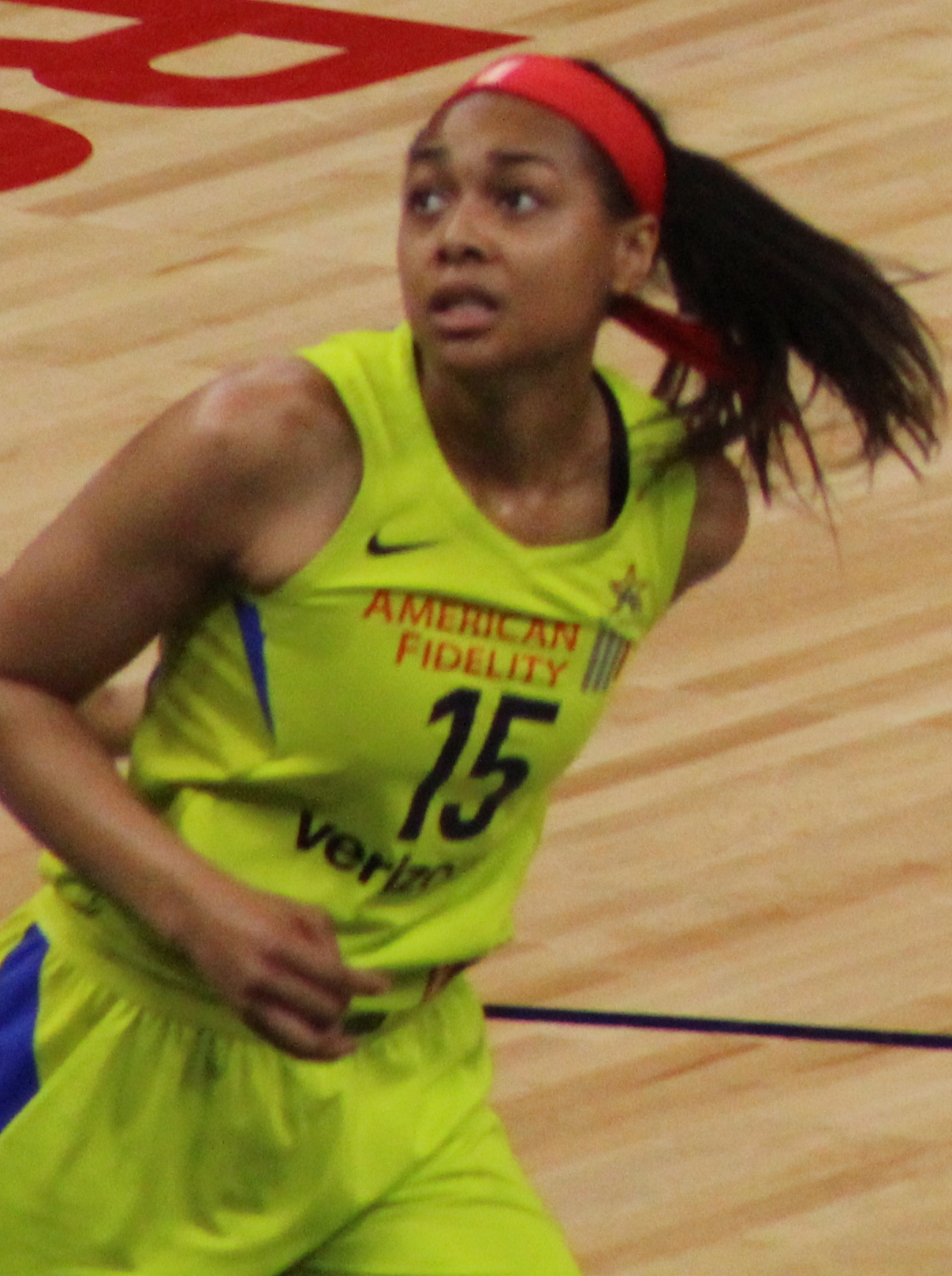 Allisha Gray of the Dallas Wings in 2018